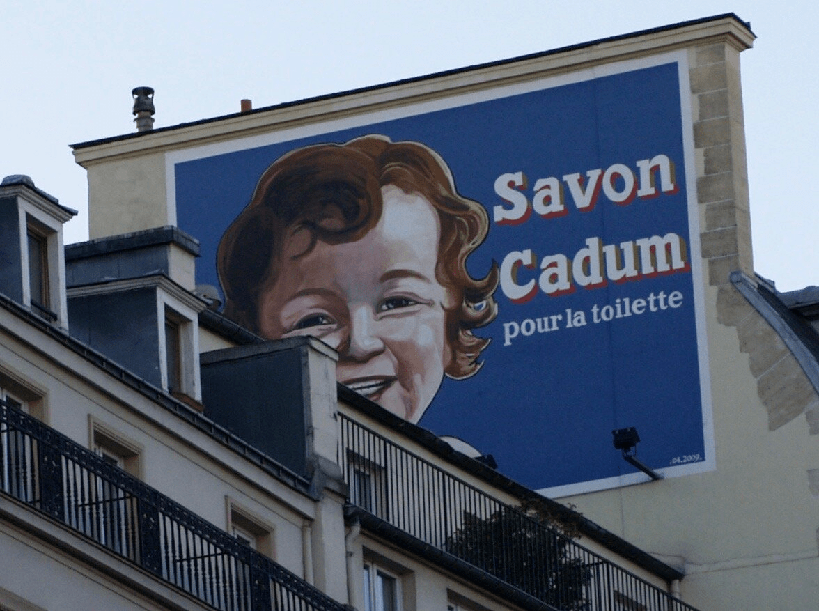 Cadum soap advertisment in Boulevards of Paris in Paris.